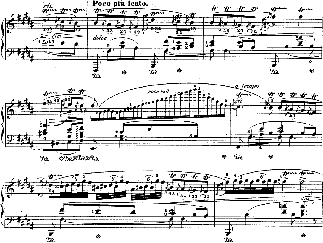 Elaborate embellishment of principal theme, Nocturne Op 62, No 1